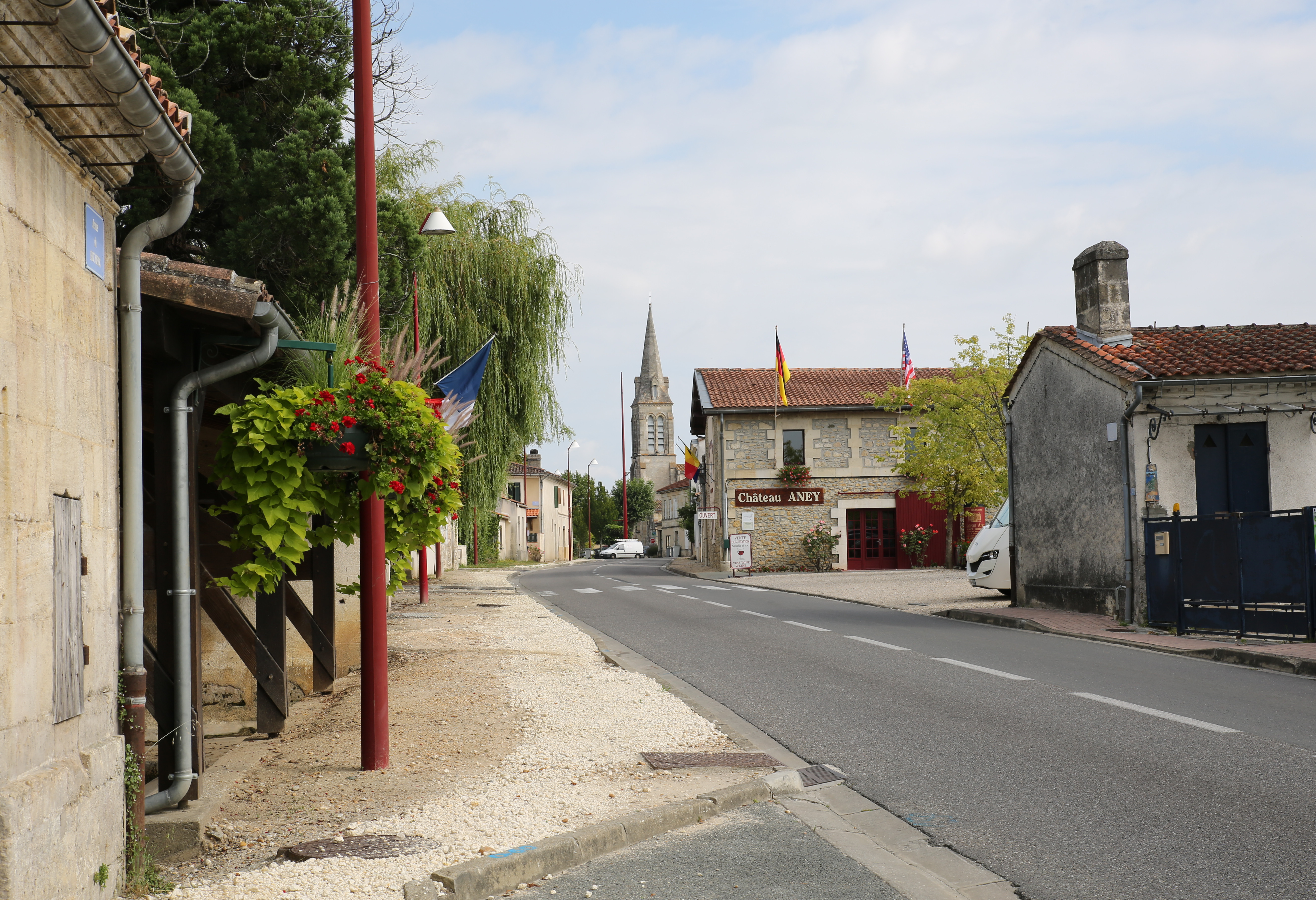 Cussac-Fort-Médoc